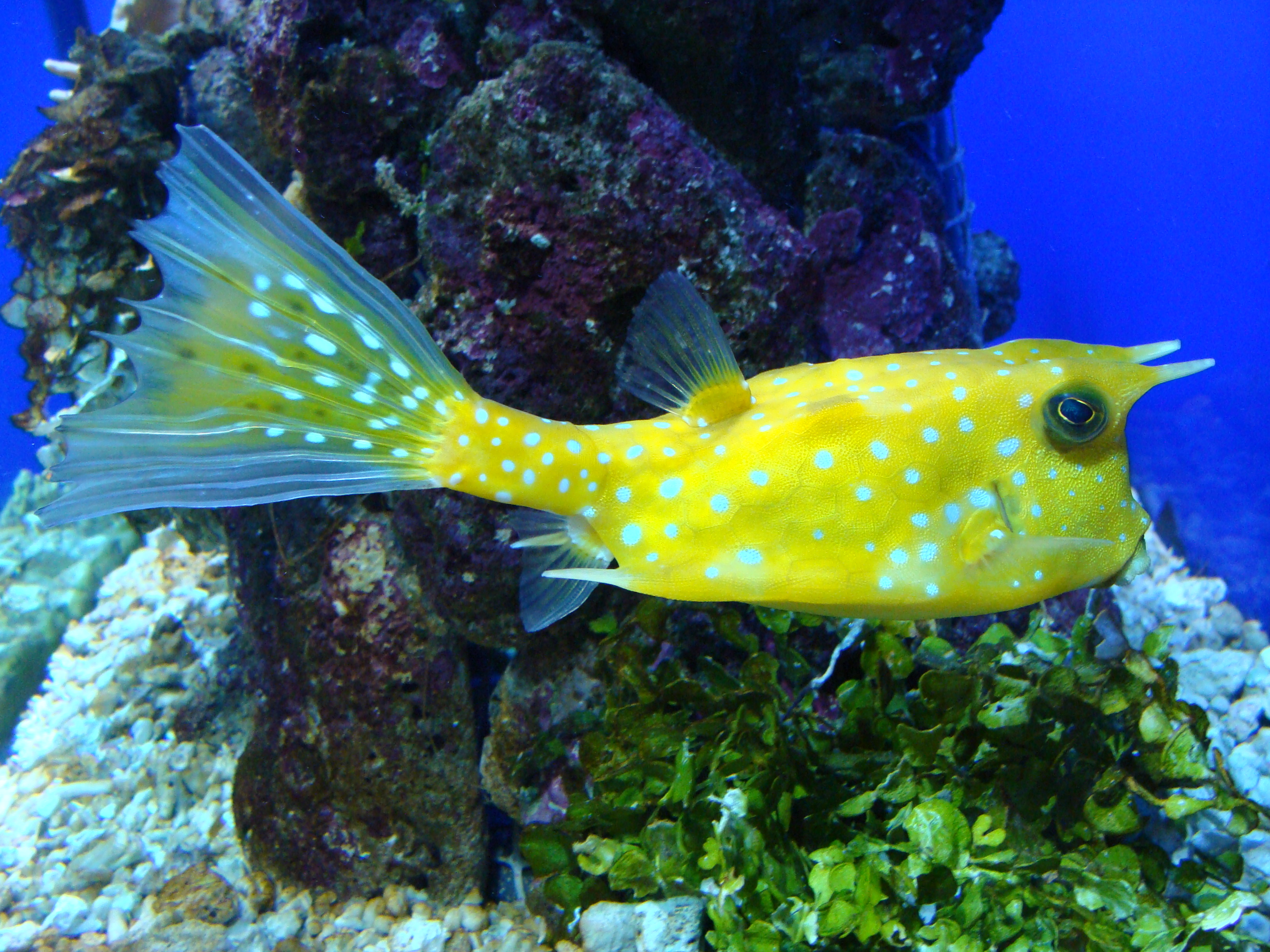 Lactoria cornuta (Longhorn cowfish) in Sala Humboldt of Aquarium Finisterrae (House of the Fishes), in Corunna, Galicia, Spain.